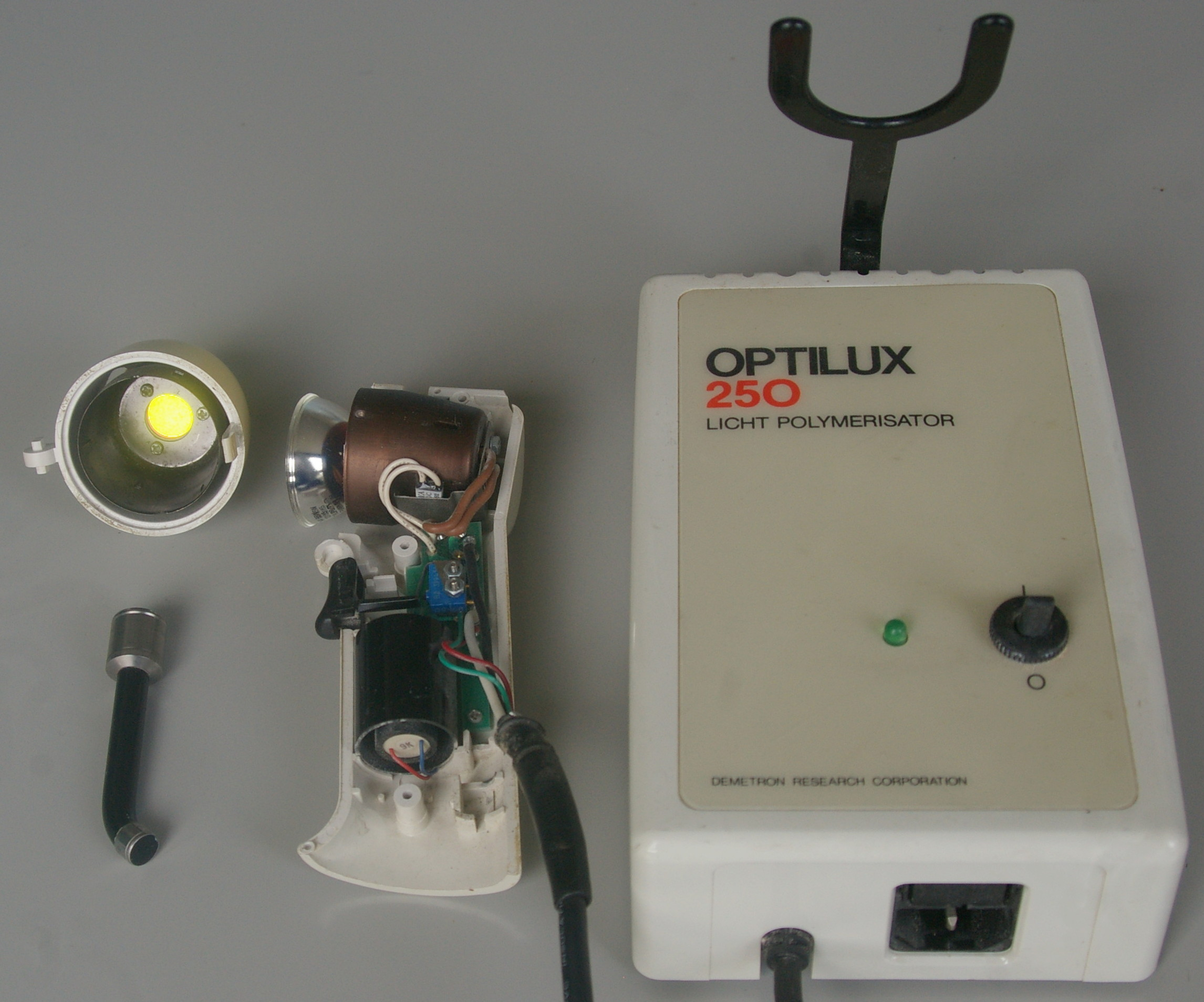 Old Demetron Optilux 250 dental curing light disassembled